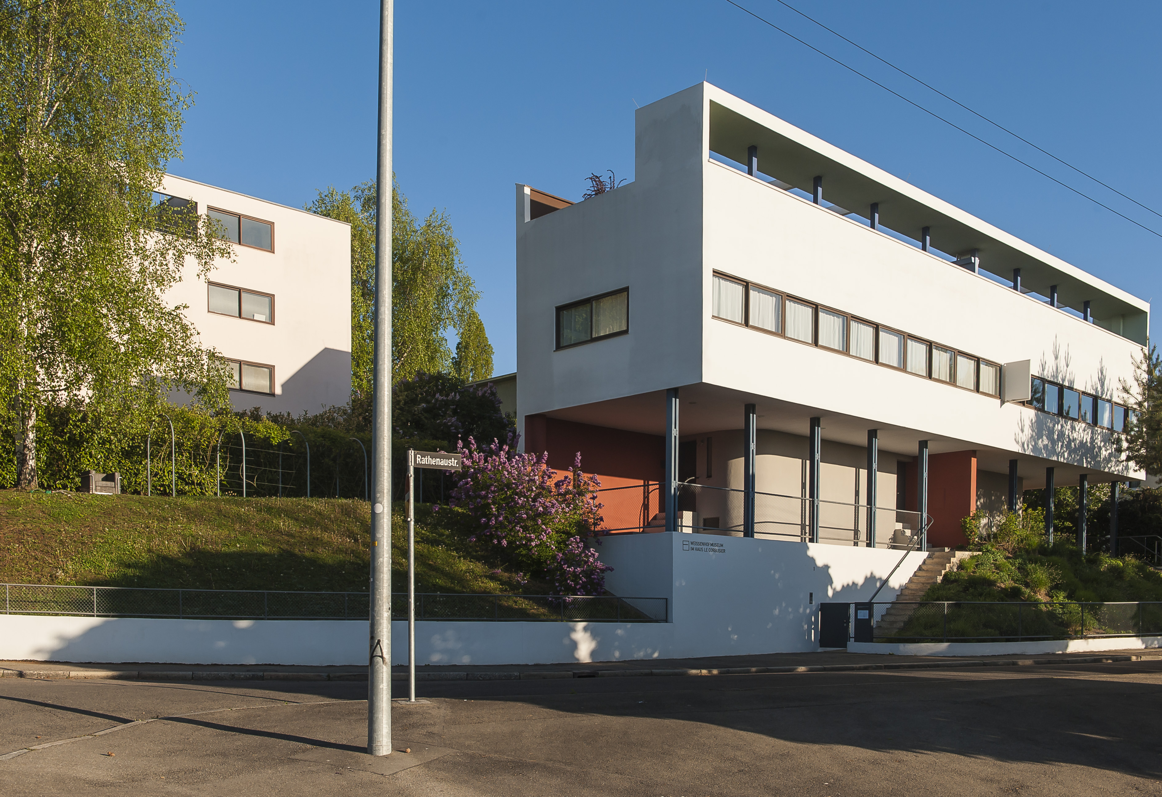 Duplex house (Weißenhof Museum) and Haus Citrohan, by Le Corbusier and Pierre Jeanneret, Weißenhofsiedlung Stuttgart